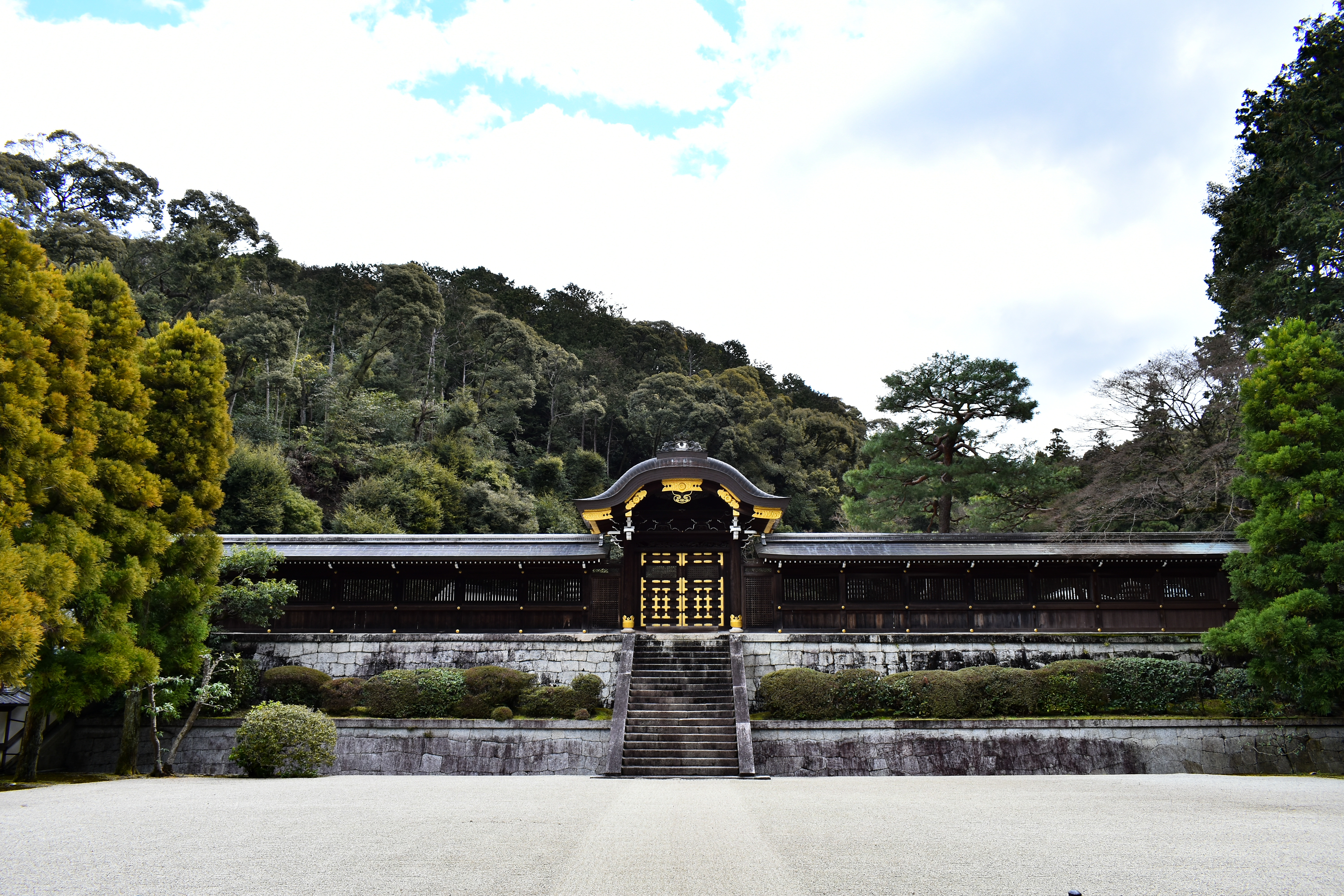 Tsukinowa no misasagi is located in Higashiyama Ward, Kyoto City, Kyoto Prefecture. Administered by the Imperial Household Agency.